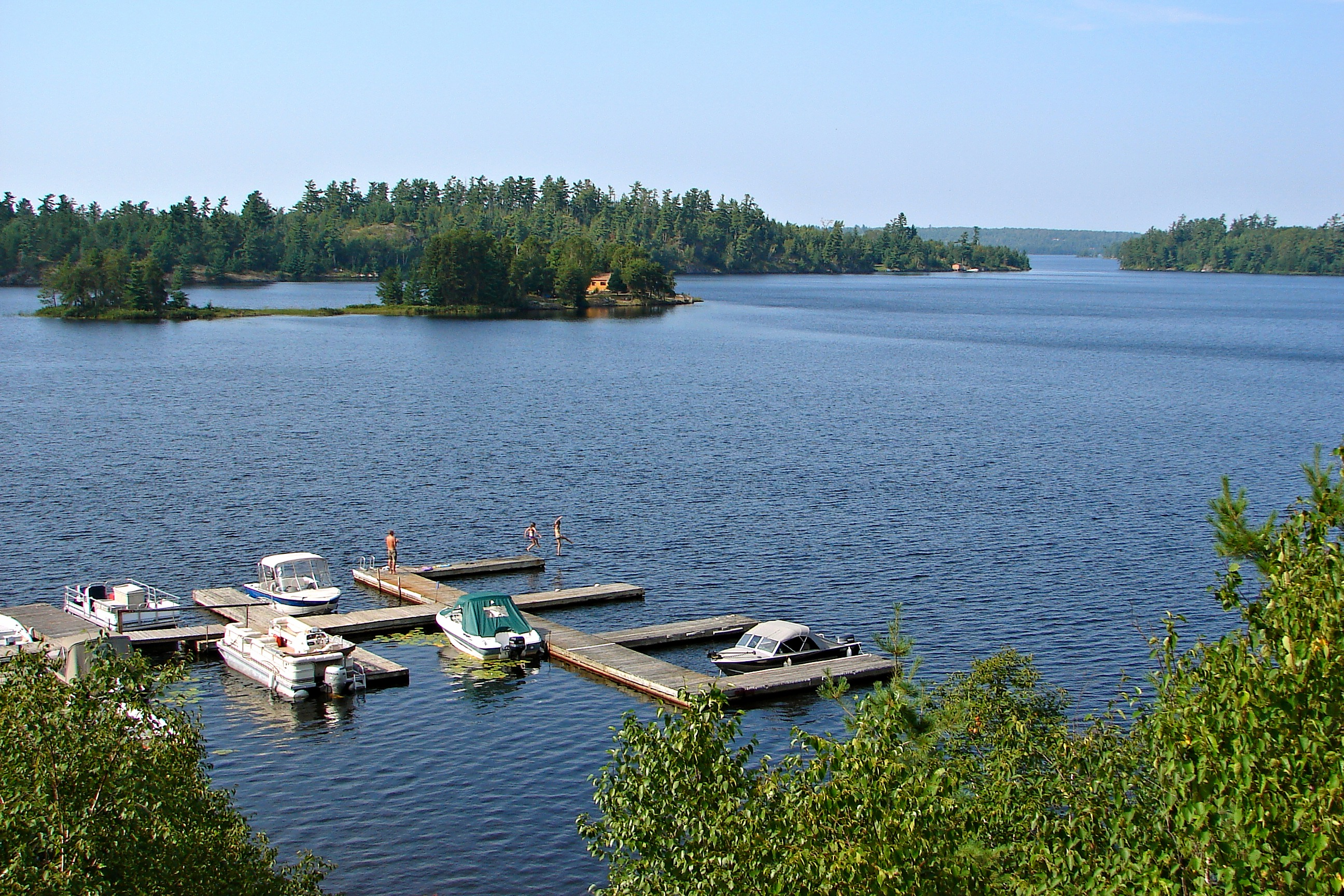 Moran's Bay of Rainy Lake, Ontario, Canada